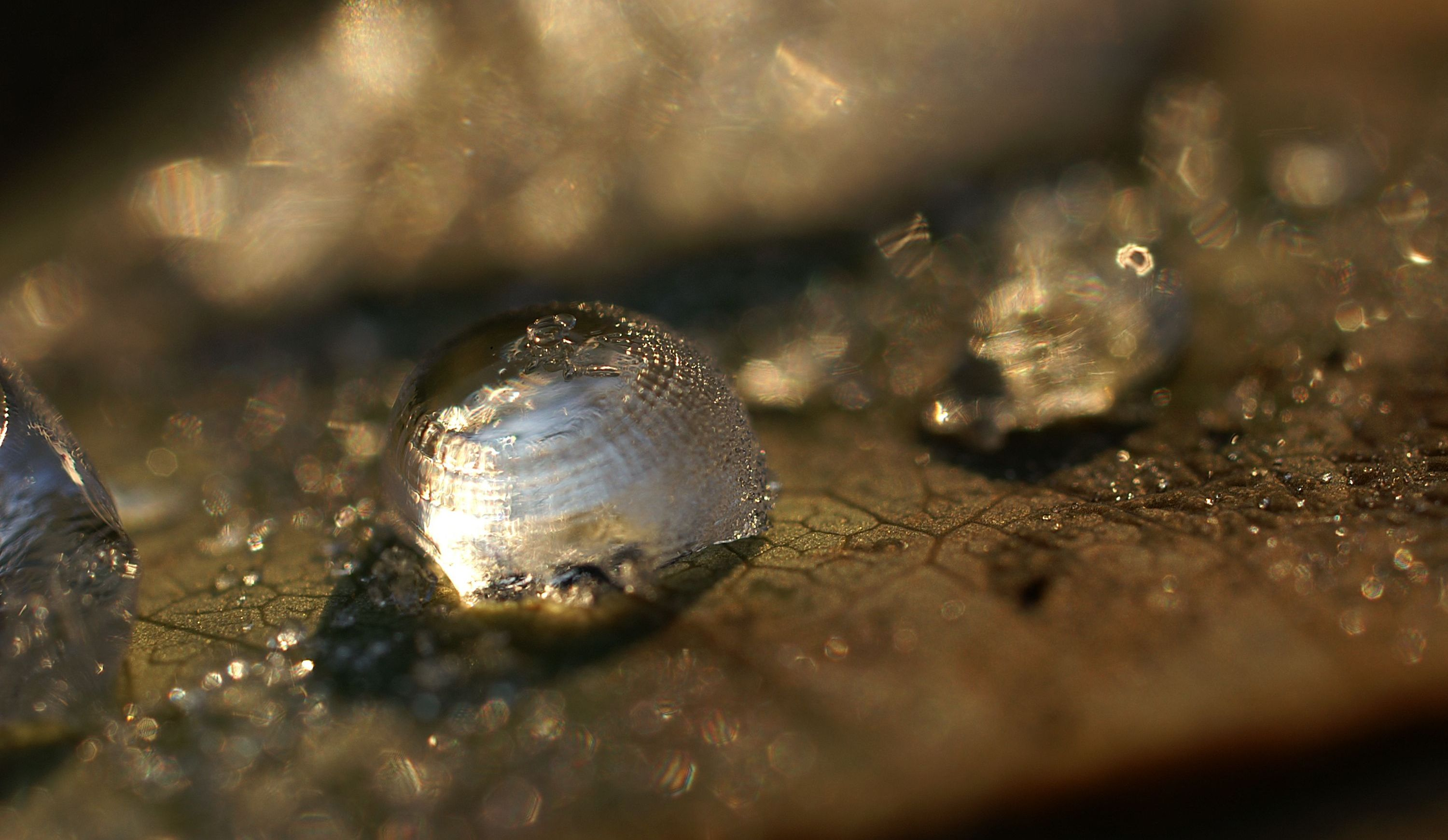 A frozen drop of water ice on a leaf. The shape of the water drop resulted from the leaf movement. The leaf is on a busy street, along a wall at temperatures below freezing.